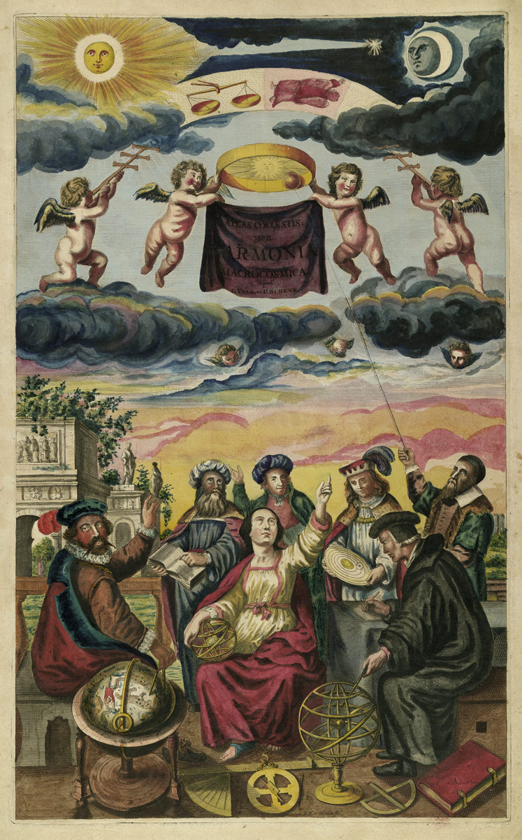 Harmonia macrocosmica seu atlas universalis et novus, totius universi creati cosmographiam generalem, et novam exhibens, Amsterdam : G. Valk und P. Schenk, 1708. Title page (colorized engraving)